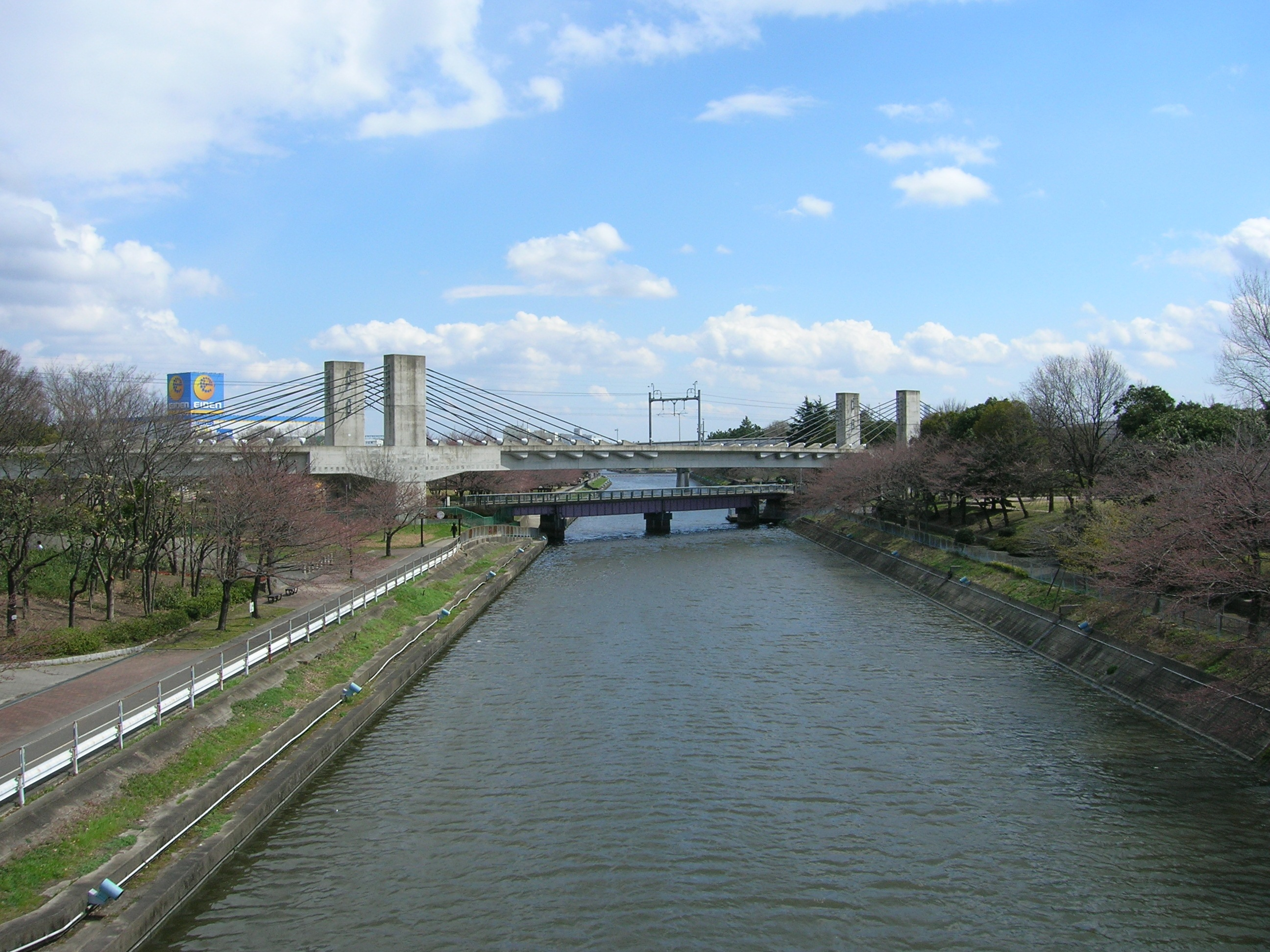 Arako river and Arako-gawa bridge (Aonami Line) Loc: Arakogawa Park, Minato-ku, Nagoya city, Aichi Prefecture, Japan. 荒子川とあおなみ線の荒子川橋梁。 撮影場所 愛知県名古屋市港区・荒子川公園